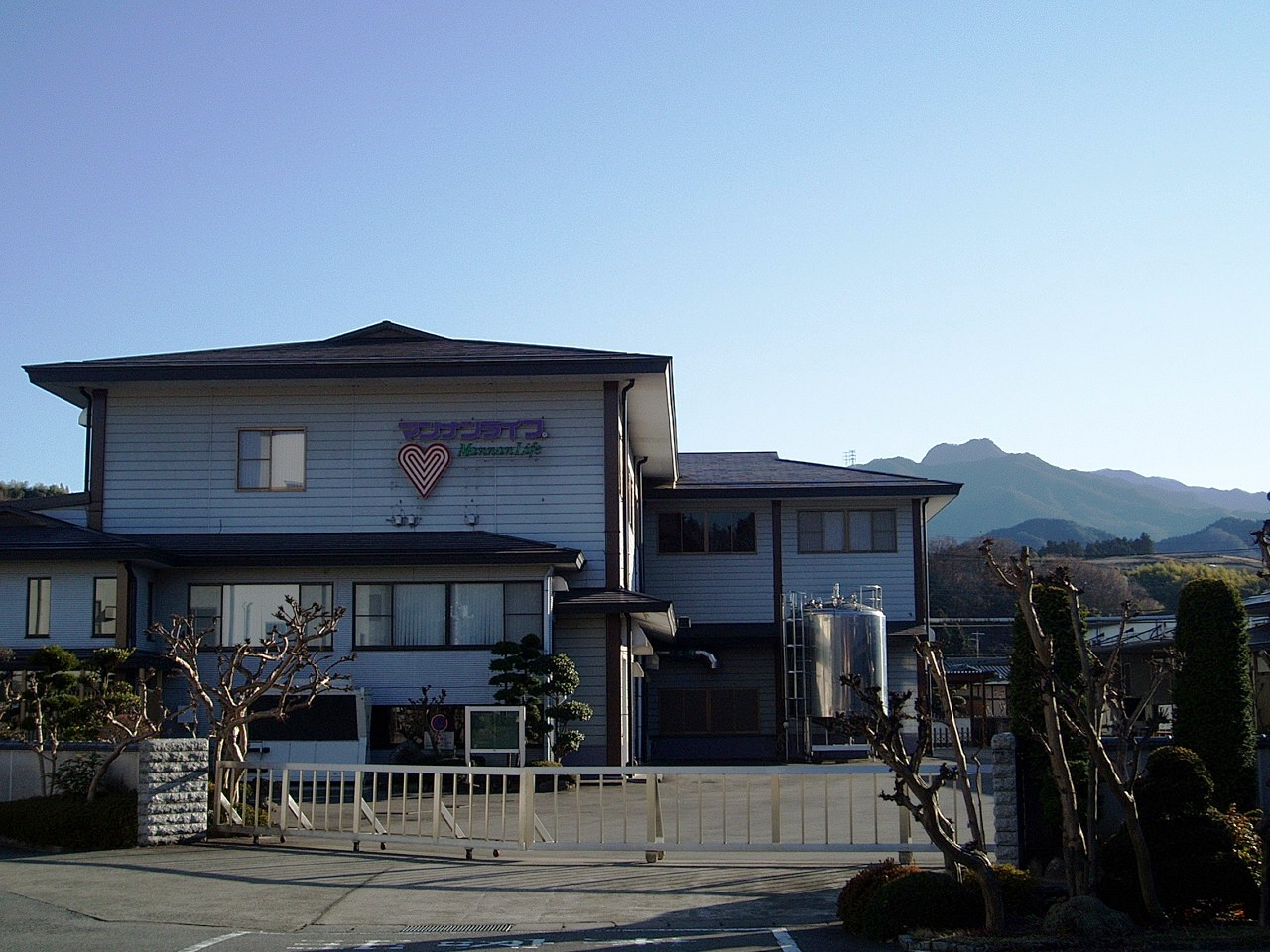 The headquarters of MannanLife Co., Ltd., a konjac food company, located in Tomioka, Gunma, Japan.